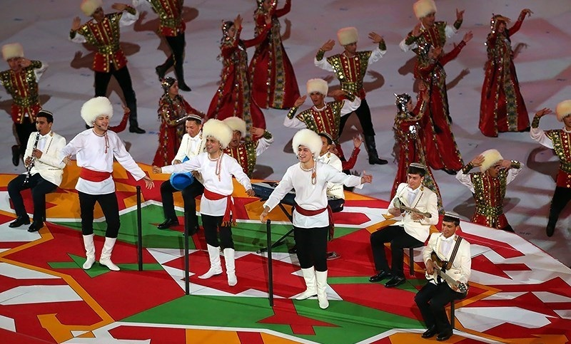 2017 Asian Indoor and Martial Arts Games